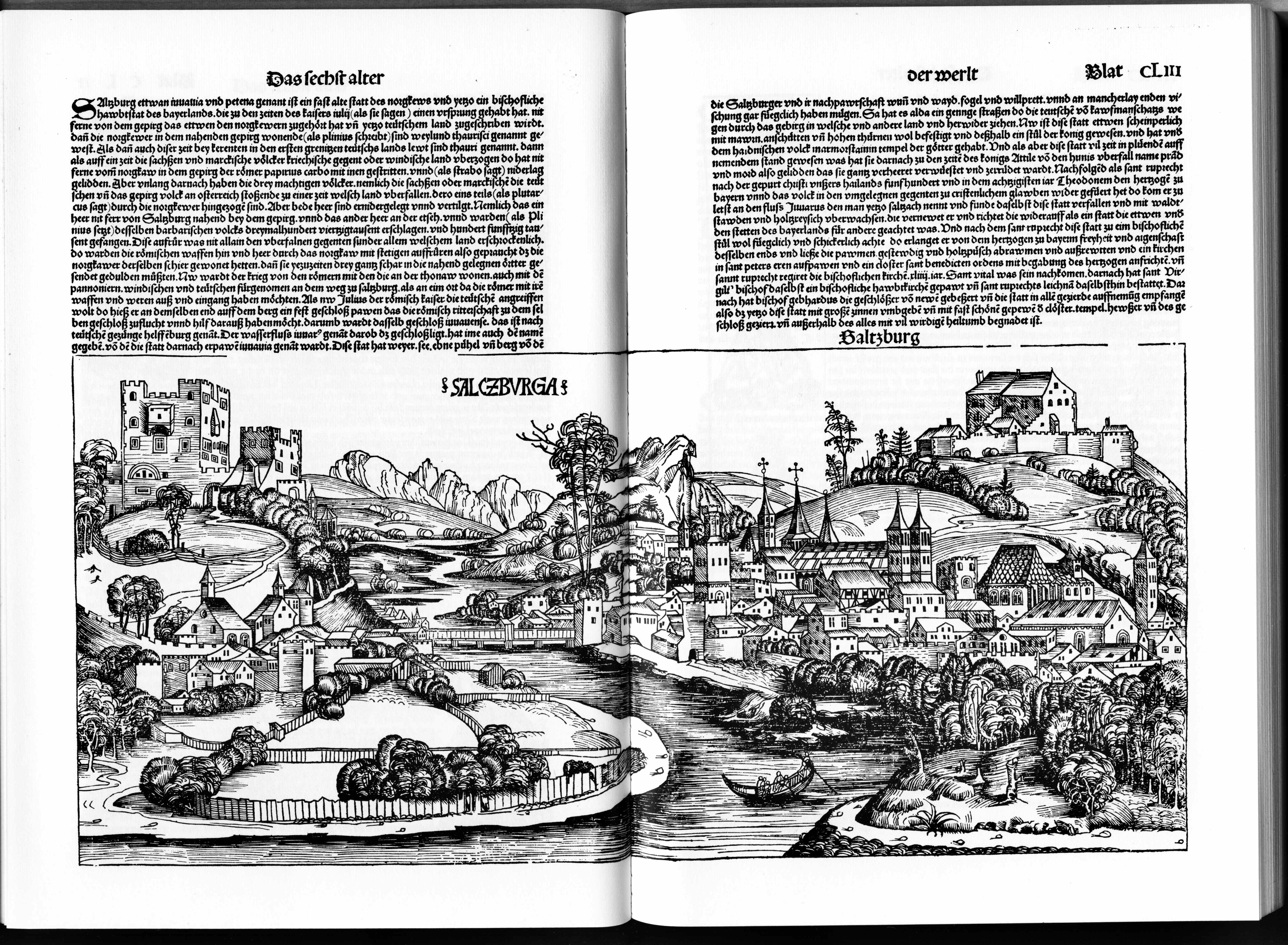 This is a scan of the historical document